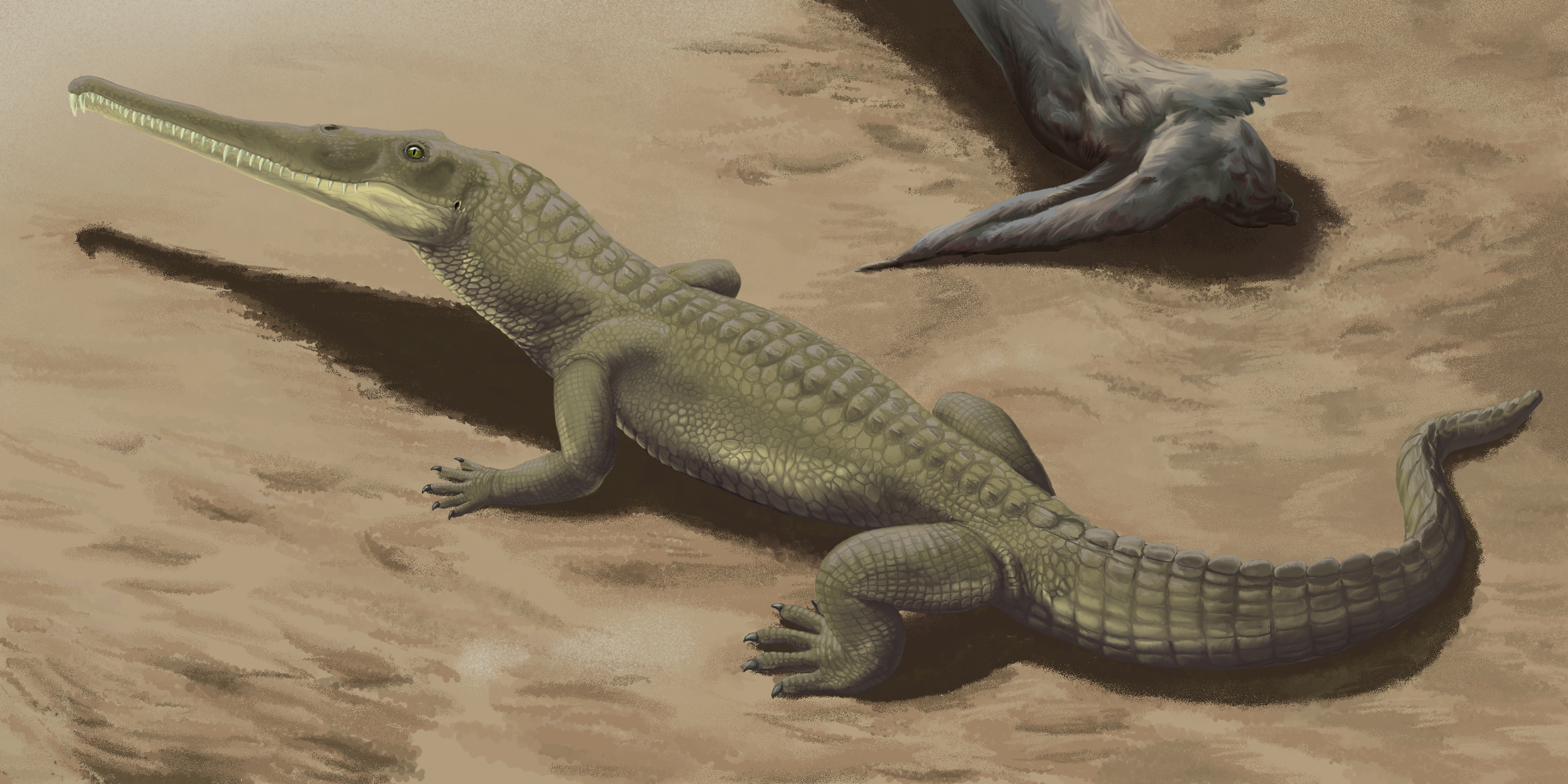 Life restoration of Protome batalaria. Head based on Figures 3, 4, 6, and [9 of "A new phytosaur (Archosauriformes, Phytosauria) from the Lot’s Wife beds (Sonsela Member) within the Chinle Formation (Upper Triassic) of Petrified Forest National Park, Arizona" by Michelle R. Stocker (Journal of Vertebrate Paleontology 32(3): 573-586). Body proportions based on those of Rutiodon.